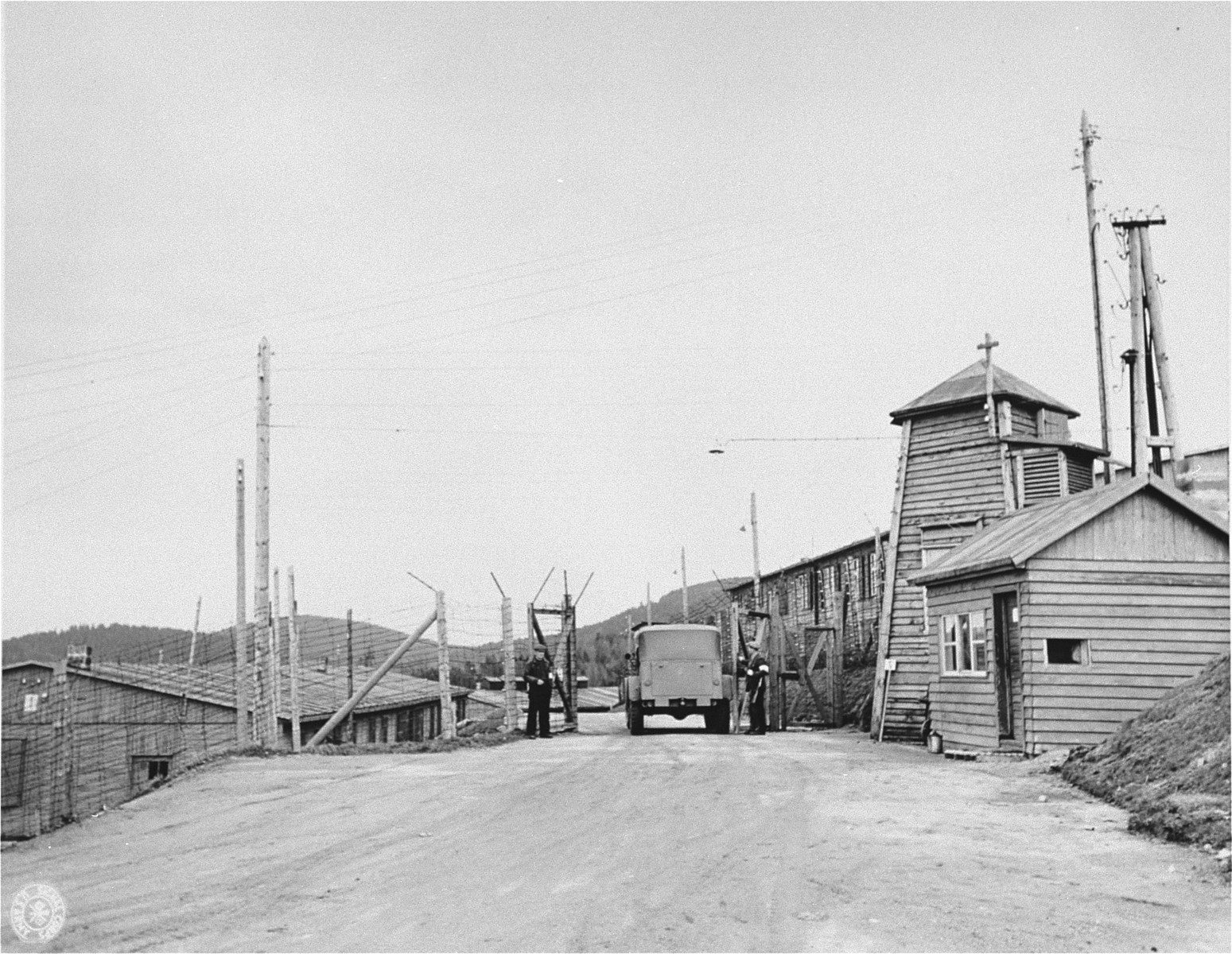 Guarded by two French resistance men